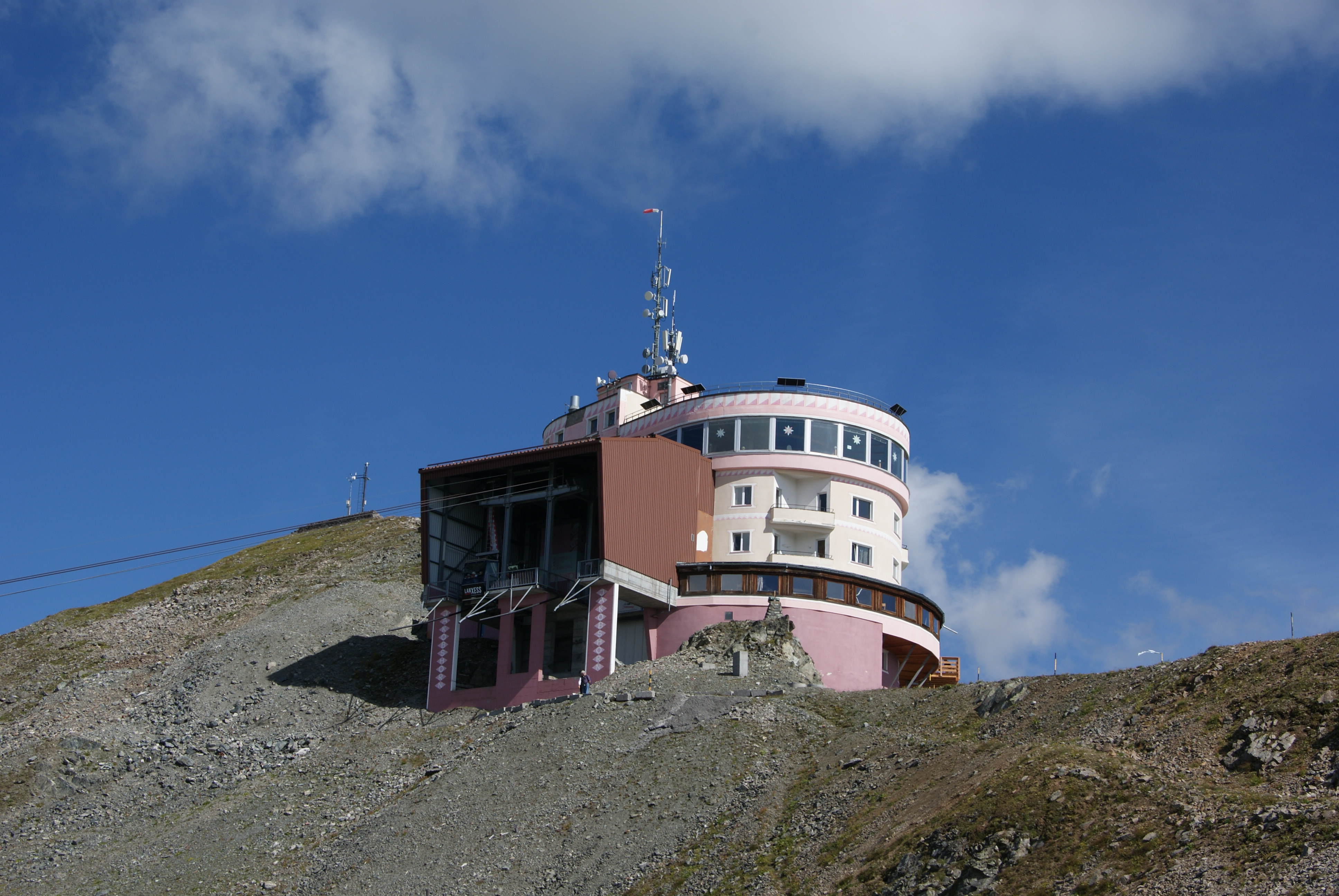 Mountain station at the Jakobshorn, Bündner Alps